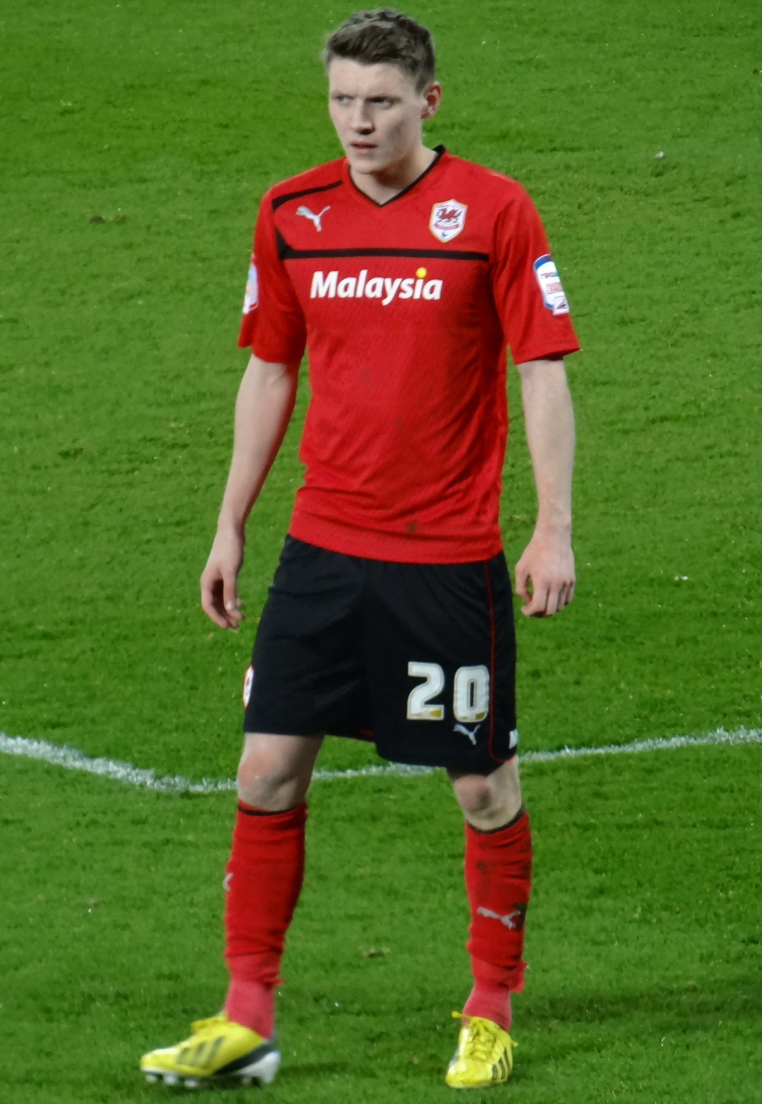 Joe Mason, a professional footballer, playing for Cardiff City in April 2013.